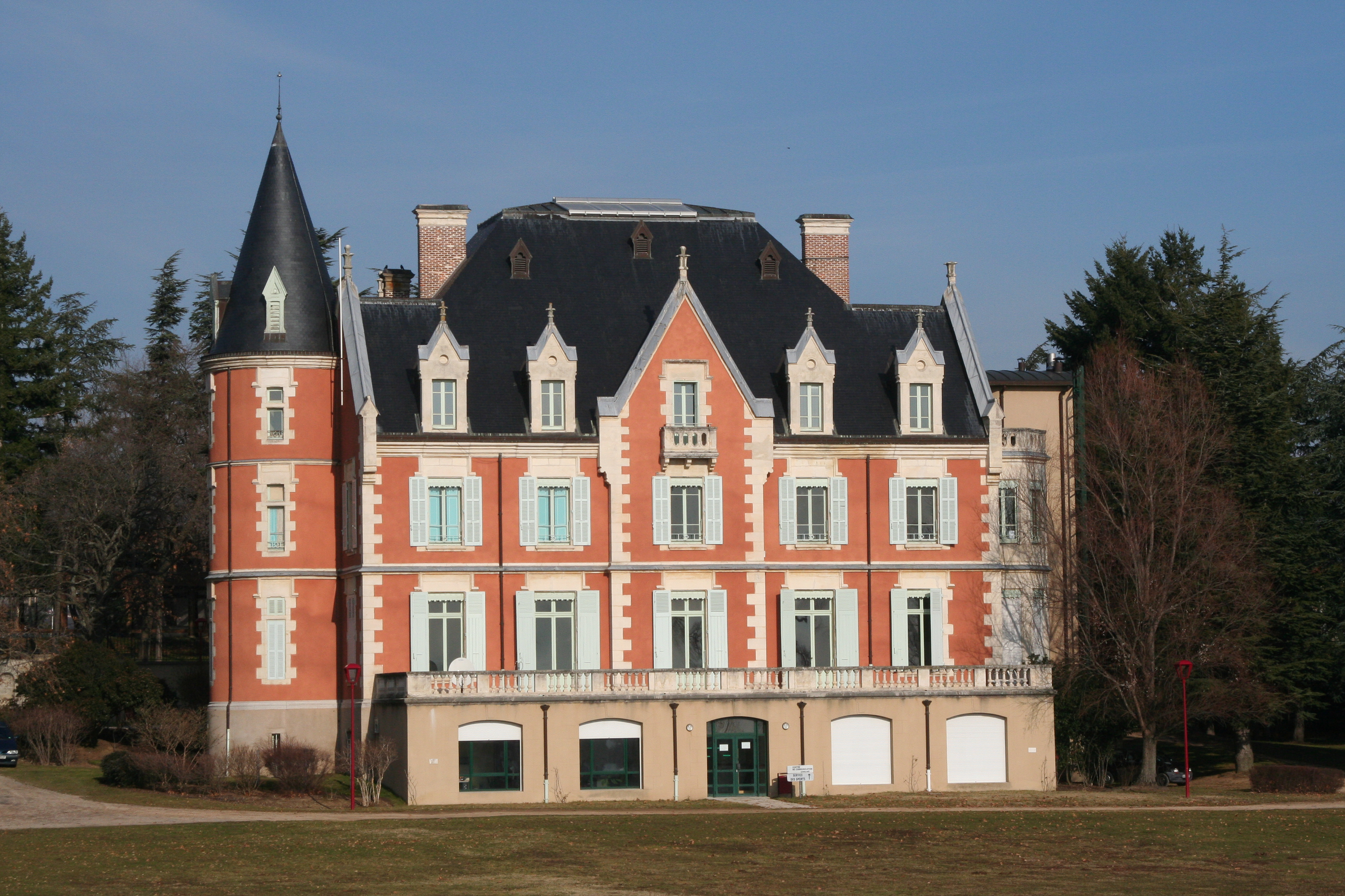 Castle of Déomas